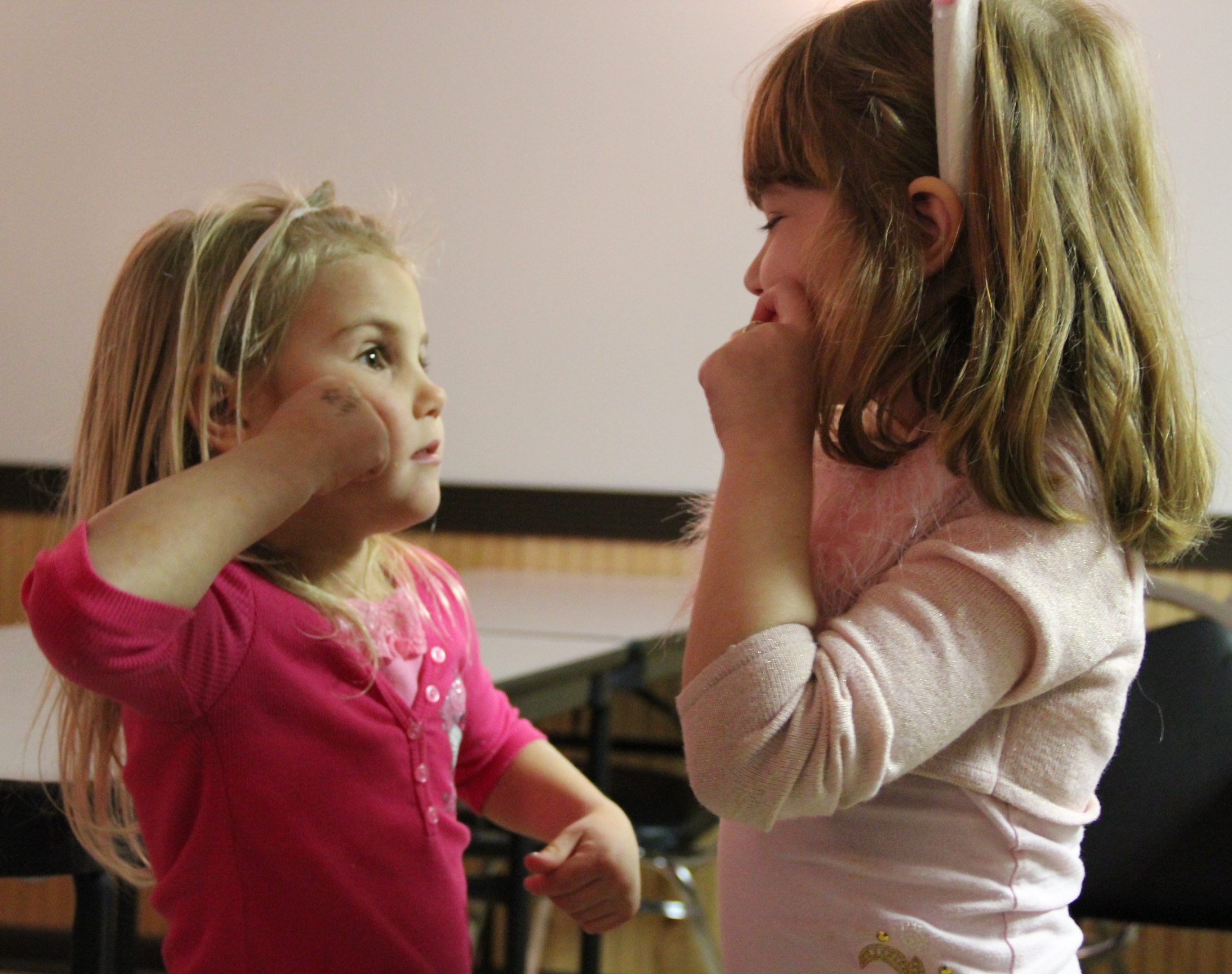 Girls learning the American Sign Language.